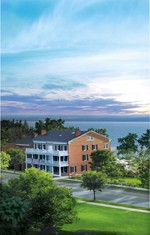 View of Aurora Inn, Aurora, NY, USA, with Cayuga Lake in the background